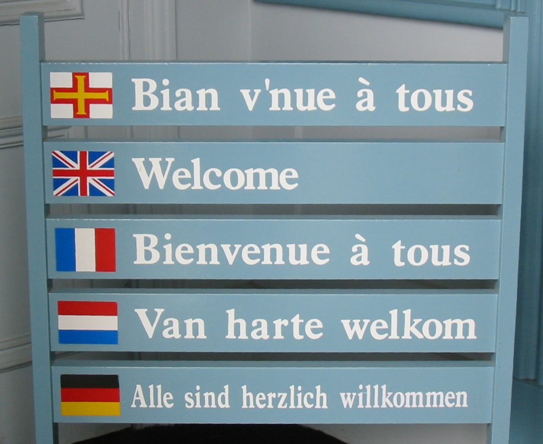 Multilingual welcome sign (including Dgèrnésiais) at Guernsey tourism office, St. Peter Port